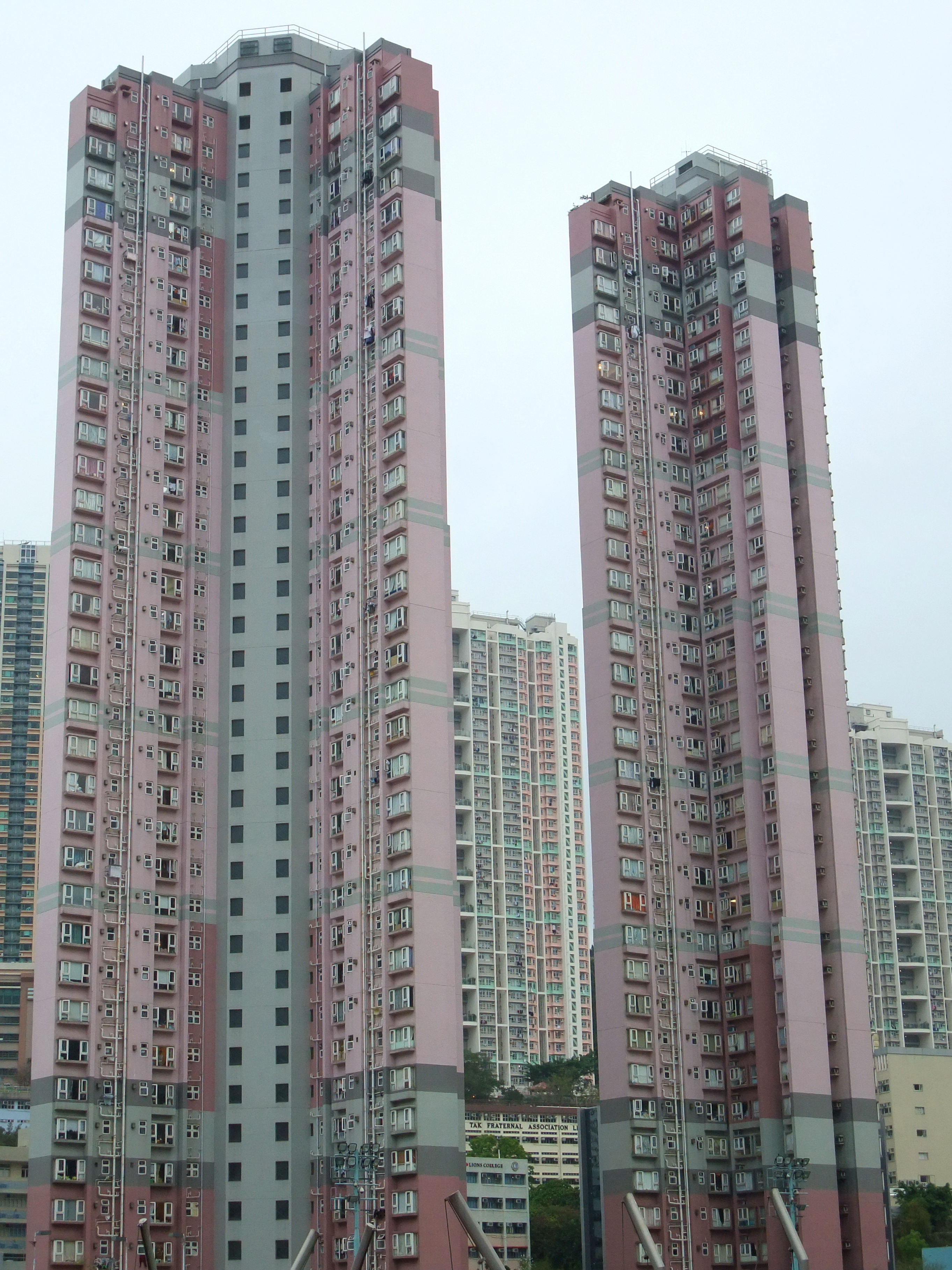 Hibiscus Park, Block 1 (left) & 2 (right), 91 Hing Shing Road, Kwai Fong, New Territories, Hong Kong.